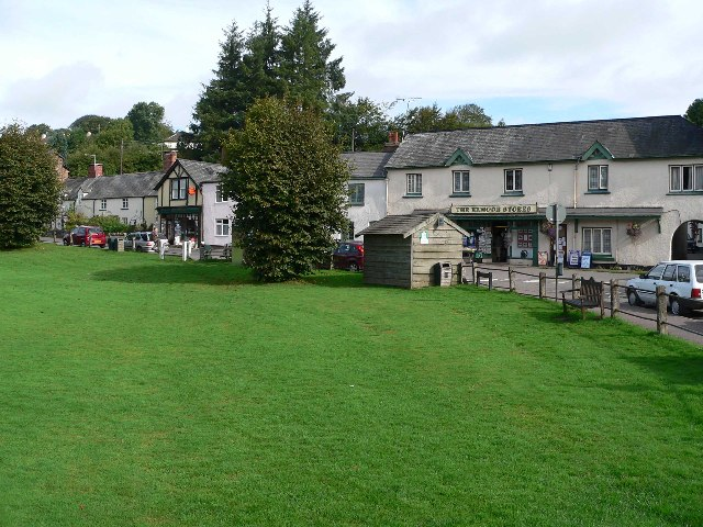 Exford Village Green Very nearly the geographic centre of Exmoor.